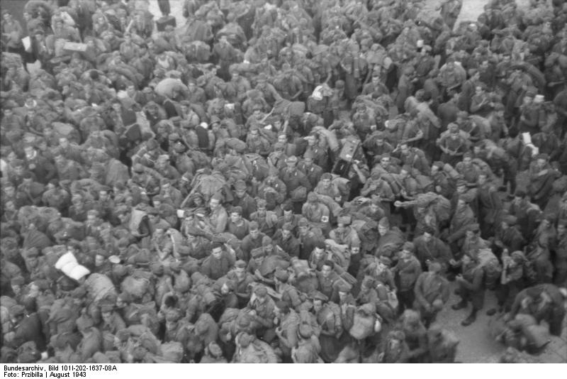 Information added by Wikimedia users.*